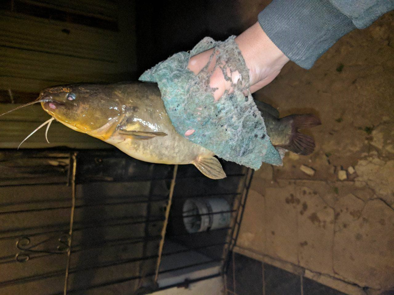 Black South American Catfish or Jundiá (Rhamdia quelen)